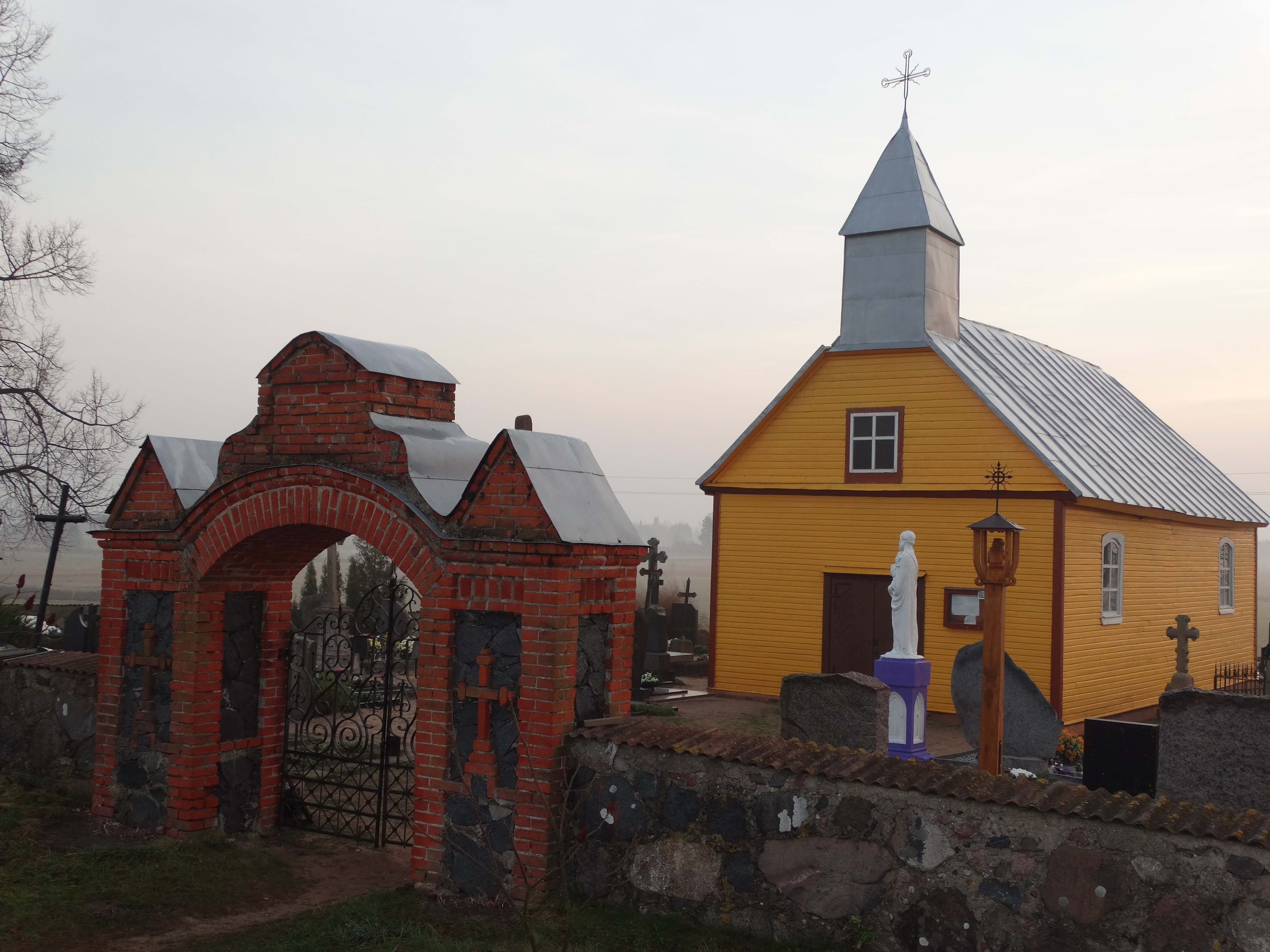 Chapel in Šukionys, Biržai district, Lithuania